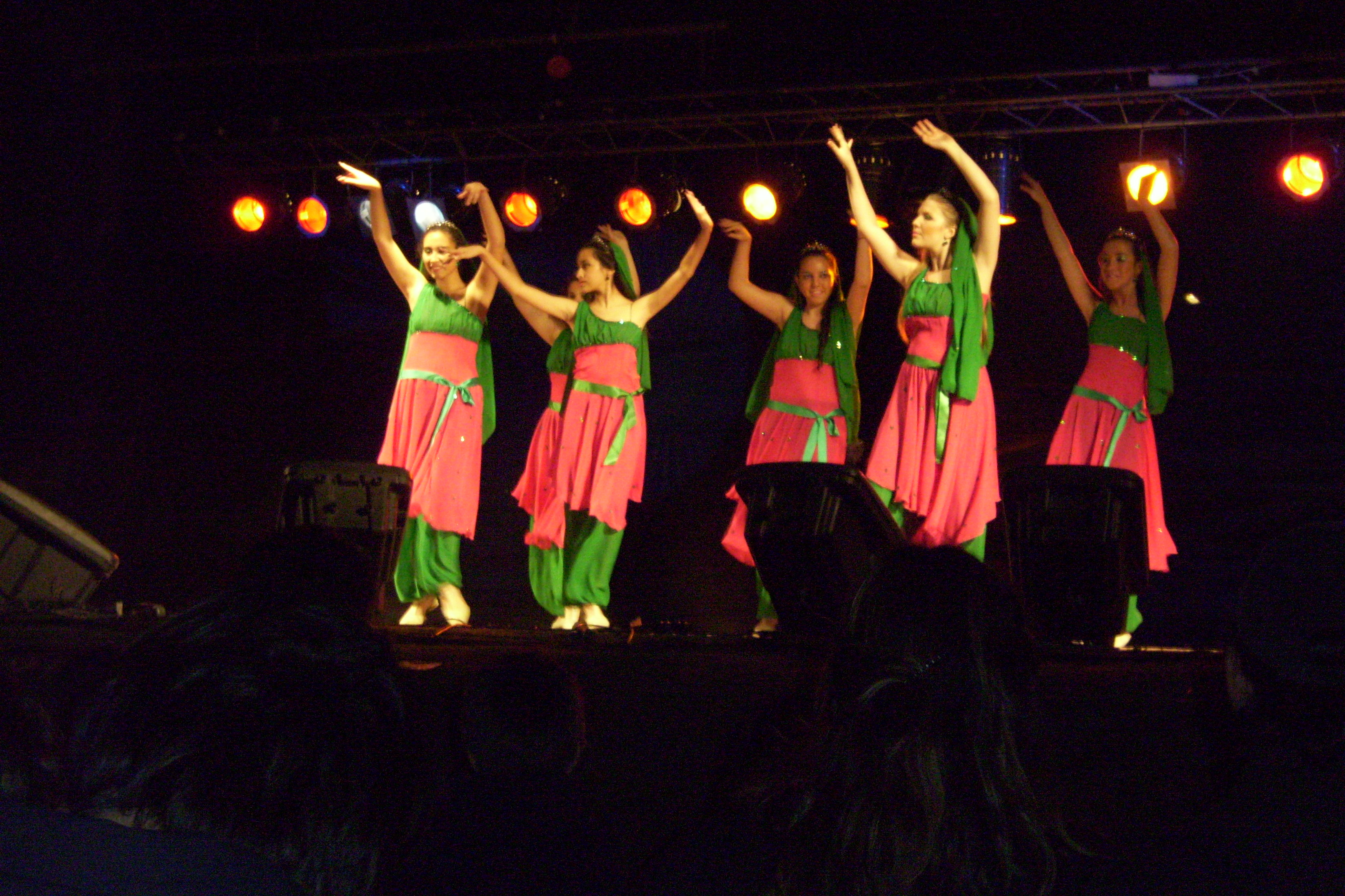 Girls of the Ballet "Tahere" of the Iranian collectivity in Rosario, Santa Fe perform a typical Persian dance during the 15th Collectivities' Festival in San Pedro, Buenos Aires Province, Argentina.